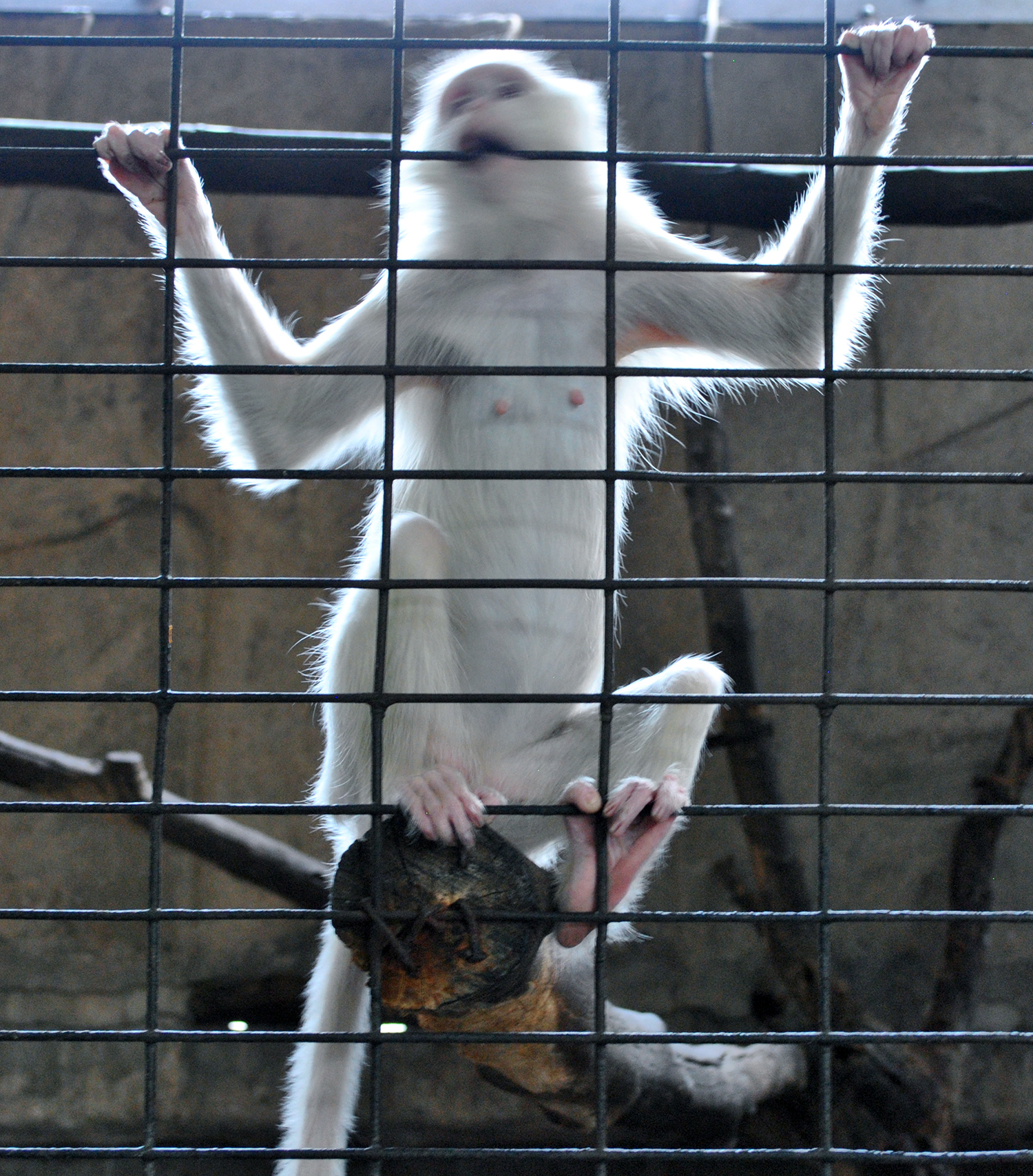 Albino Monkey in Pata Zoo